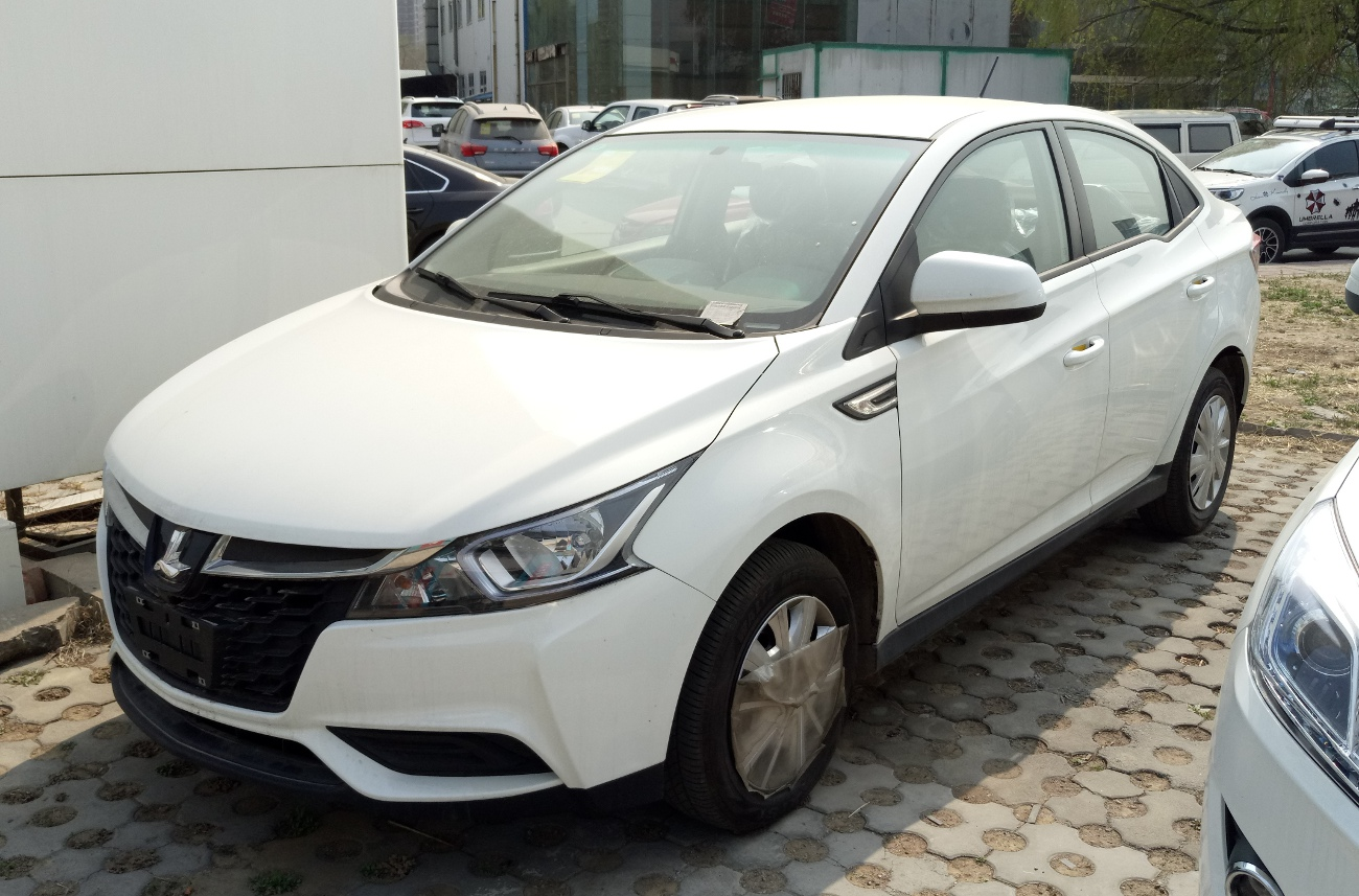 Luxgen S3 photographed in Beijing, China.